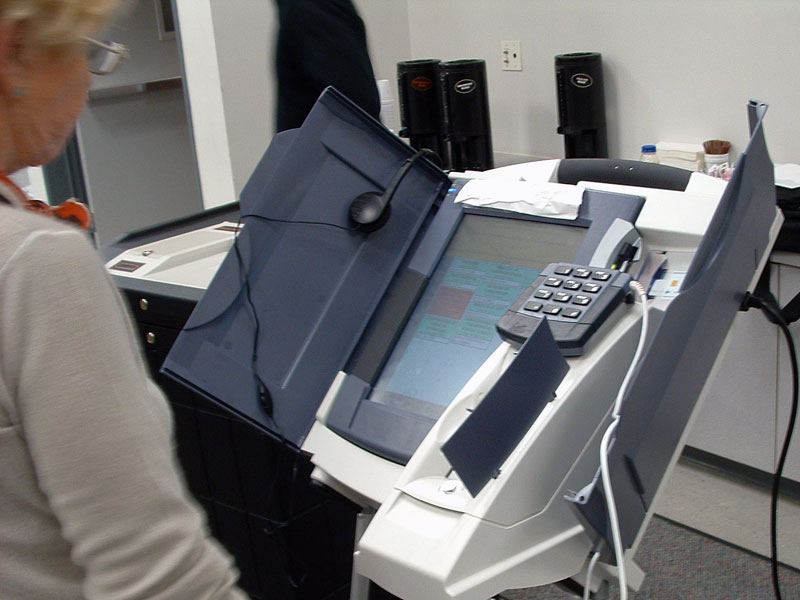 This is an image of a Diebold Elections System AccuVote-TSx DRE voting machine with a VVPAT attachment (at right). (Photographer: User:Joebeone)